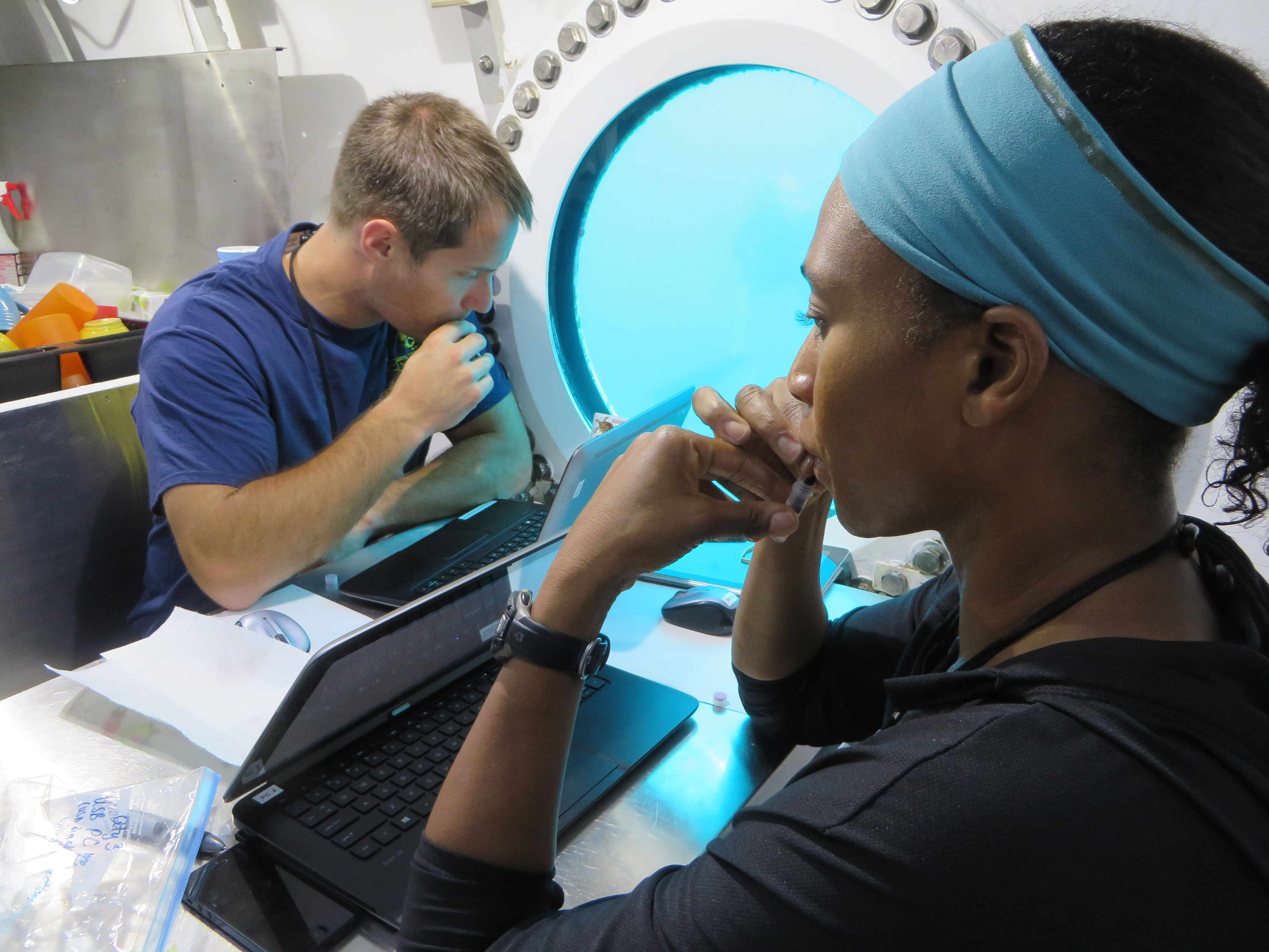 NASA astronaut Jeanette Epps and European Space Agency astronaut Thomas Pesquet, who represent half the NEEMO 18 crew, waste little time in performing experiments and other assignments inside a 400 square-foot habitat housing them for nine days underwater off Key Largo.